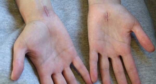 Scars from carpal tunnel release surgery. Two different techniques were used. The left scar is 6 weeks old, the right scar is 2 weeks old. A year later the female patient fully recoverd, see Carpal_tunnel_scars_II.JPG